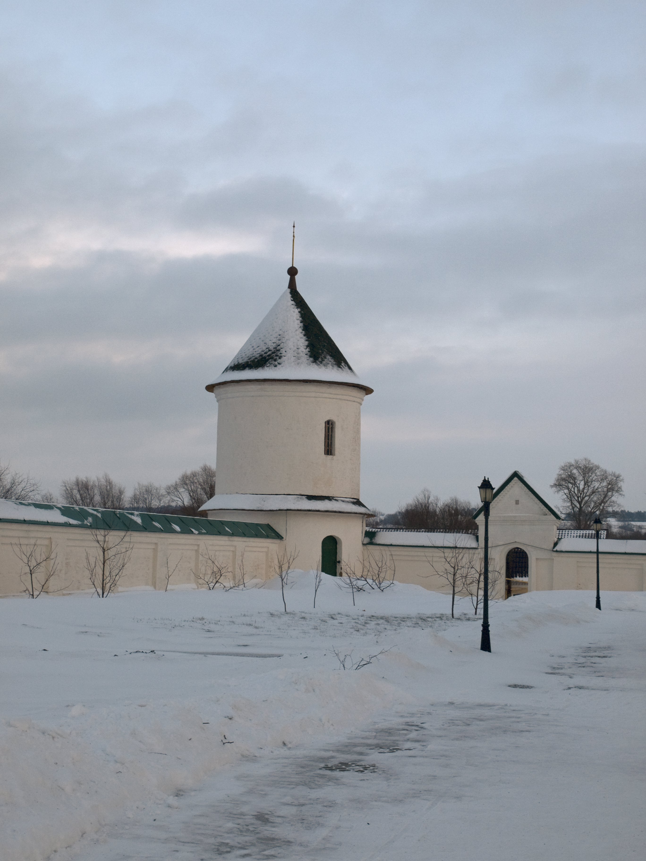 Tower, Monastery of John the Evangelist in Makarovka